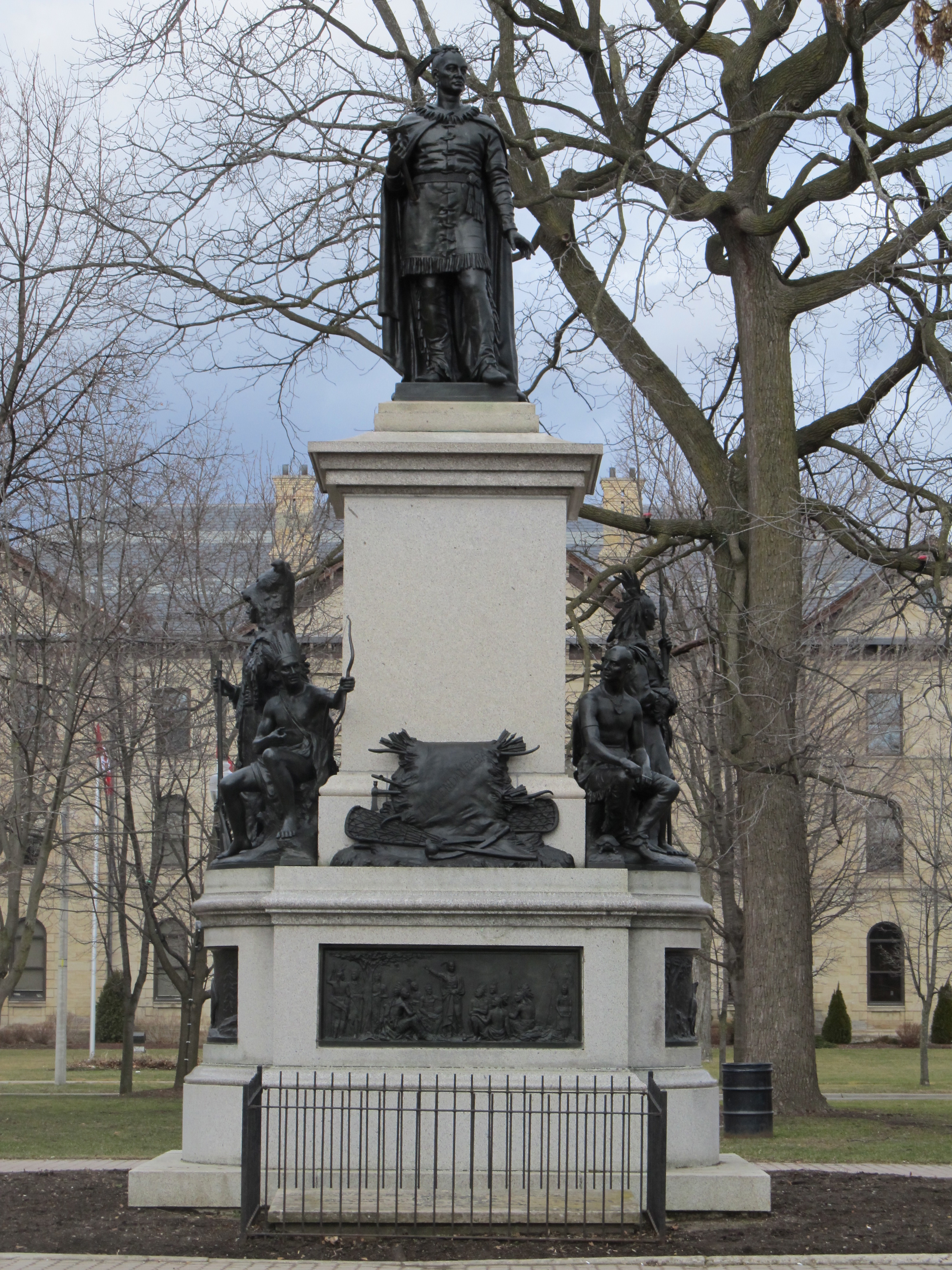 Brant Monument in Brantford, Ontario.